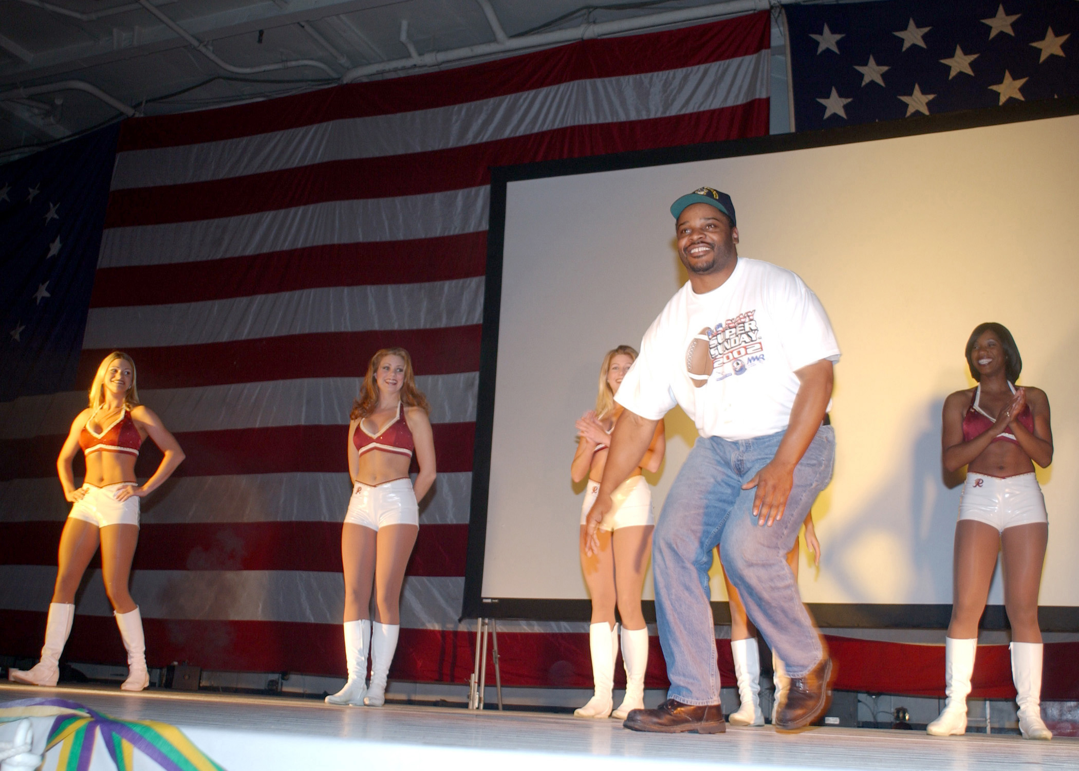 020203-N-3653A-001 At sea aboard USS George Washington (CVN 73) Feb 3, 2002 -- Former NFL Cincinnati Bengal running back, Ickey Woods, and the Washington Redskin Cheerleaders perform during the pre-game show in hangar bay two aboard USS George Washington, during a live broadcast of Super Bowl XXXVI. Woods became famous for the "Ickey Shuffle" on the way to the Super Bowl in 1988. The Washington is currently conducting fleet carrier qualifications in the Atlantic Ocean. U.S. Navy photo by Photographer’s Mate 3rd Class Summer M. Anderson. (RELEASED)